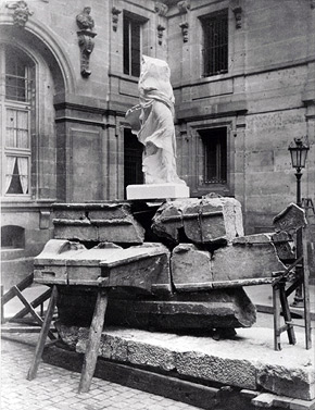 Nike statue of SamothraceLocation: a courtyard of Musée du Louvre.